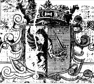 Original Arms of Connacht